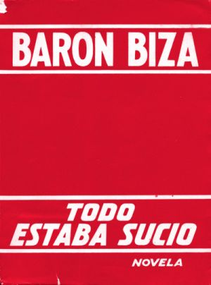 Book cover of Todo Estaba Sucio, a novel written by Raúl Barón Biza.